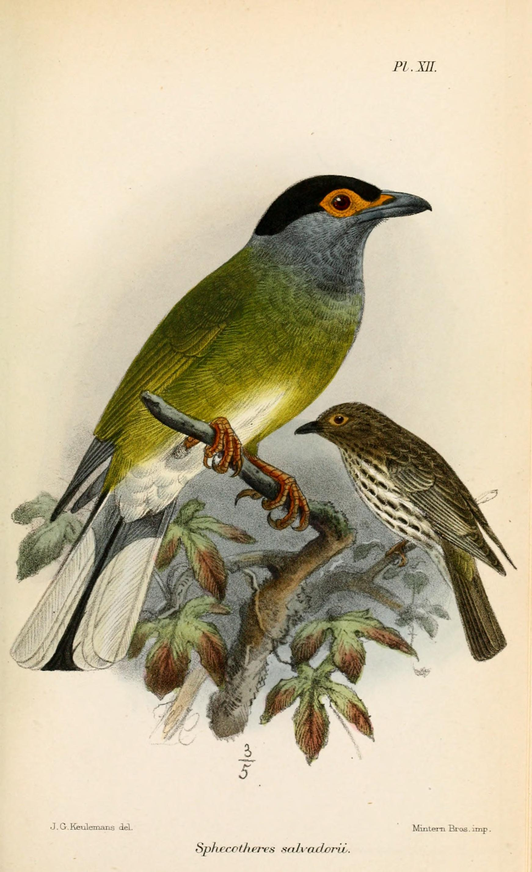 Title: Catalogue of the Birds in the British Museum Year: - 1877 1877 - 1877 (1870s) Authors: British Museum (Natural History). Department of Zoology. (Birds) Subjects: Publisher: London Text Appearing Before Image: PI. III. Text Appearing After Image: J.G.Ketjleinans del. Splitcothfi^s .sa/i adorio. Mmlem Bi-os. imp.